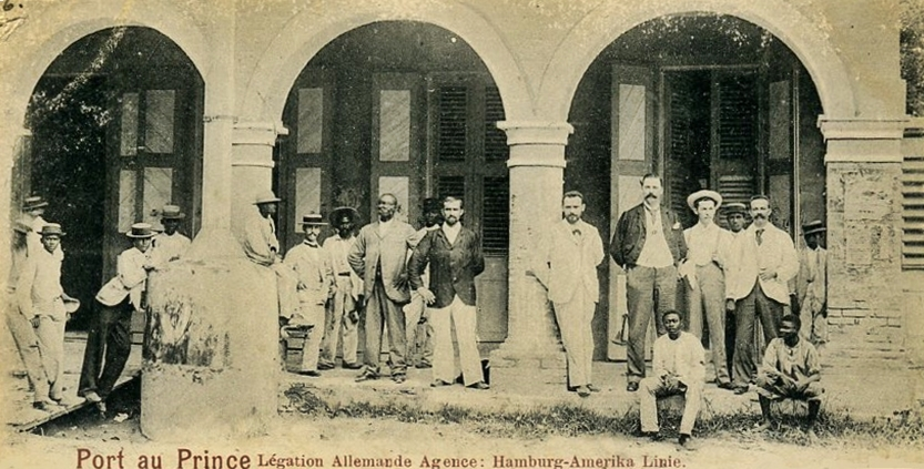 Photo showing some of the staff of the German legation and the Hamburg-Amerika Line agency at Port-au-Prince, Haiti. The agency was involved in the staffing and management of the legation. German nationals were comparatively numerous in Haiti and heavily involved in the Haitian economy until World War I. Real photo postcard mailed in 1901.